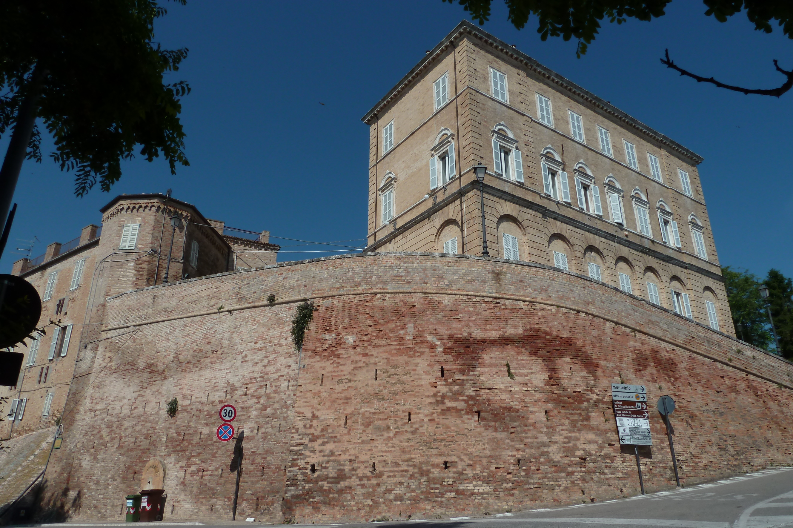 Monteprandone, Walls and Town Hall, 12-6-2011